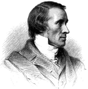 Picture of James David Forbes, the Scottish physicist.